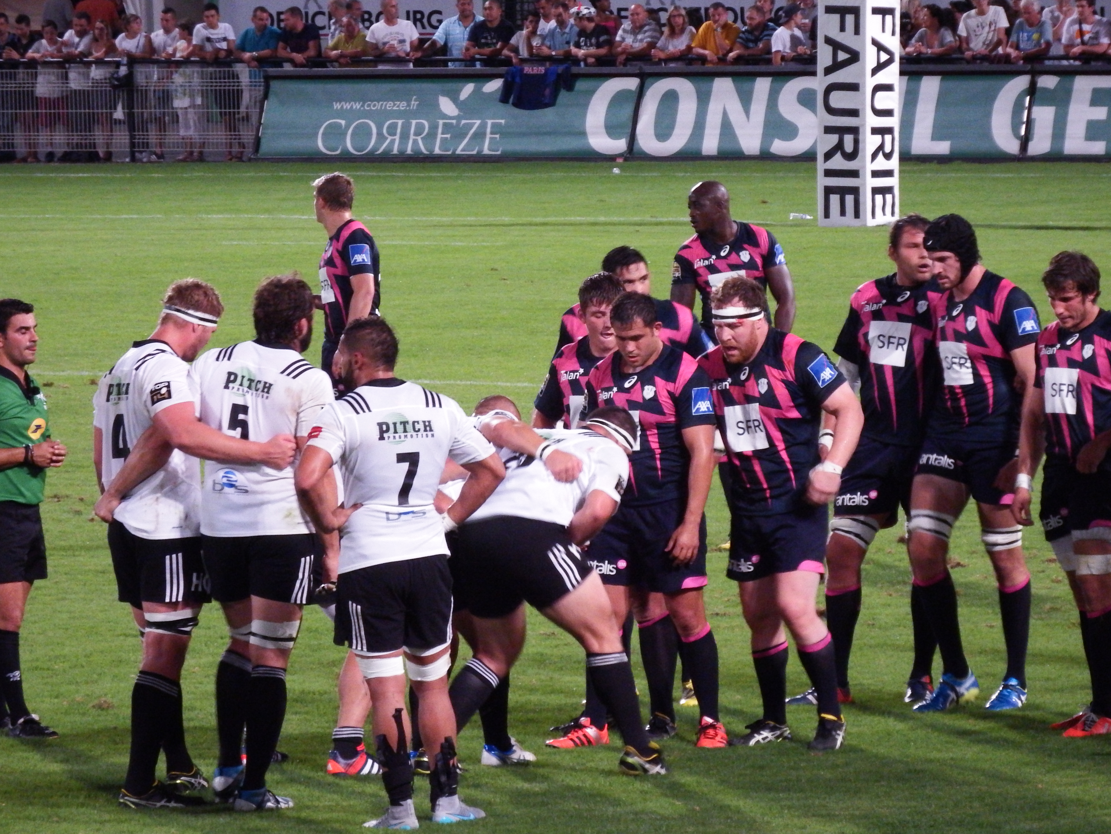 2015–16 Top 14 season — 30 August 2015, Stade Amédée-Domenech. Match between: CA Brive — Stade Français